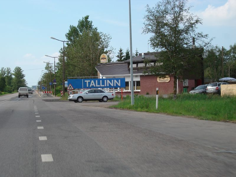 Entrance to Tallinn on Tartu road.